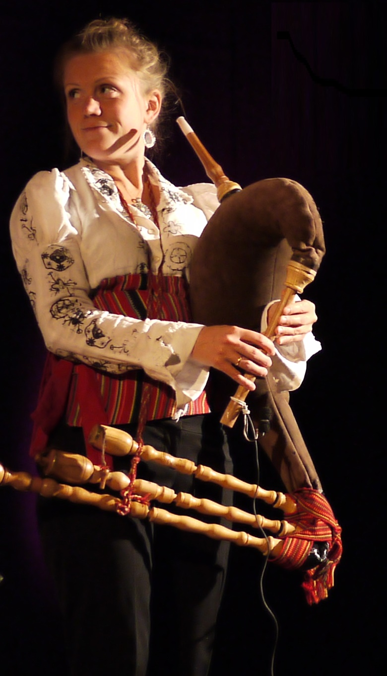 Cätlin Mägi playing an Estonian bagpipe 'torupill'